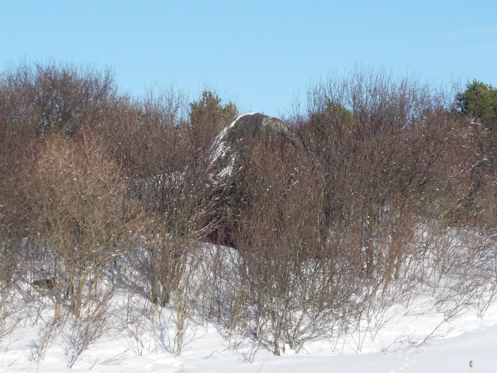 Southern part of Kõverlaid, a small island southeast from Hiiumaa. Estonia.